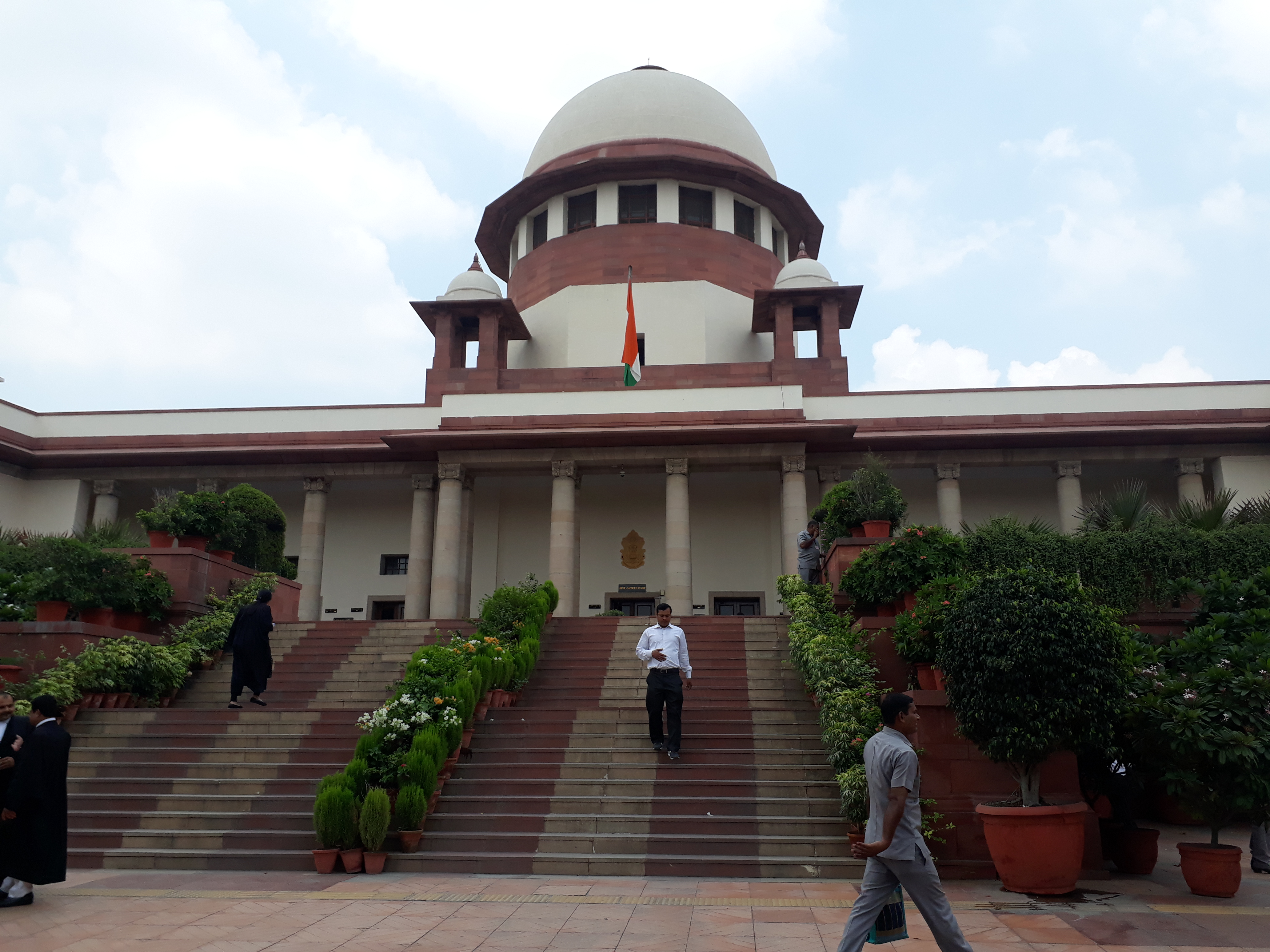 Inside the Supreme Court of India, Building and premises, New Delhi